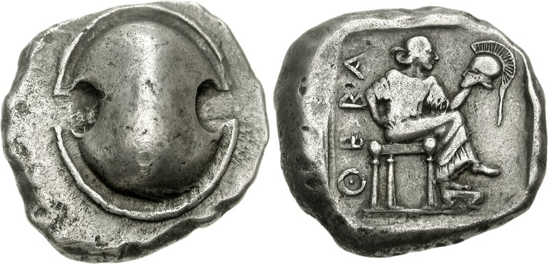 Boeotia, Thebes. Circa 450-440 BC. AR Stater (12.18 g). Boeotian shield Female figure (Harmonia ?, wife of Cadmus), wearing long chiton, seated right, holding crested Corinthian helmet in her left hand, right hand on her hip, left foot resting on a footstool; ΘEBA upward on left; all within square incuse.